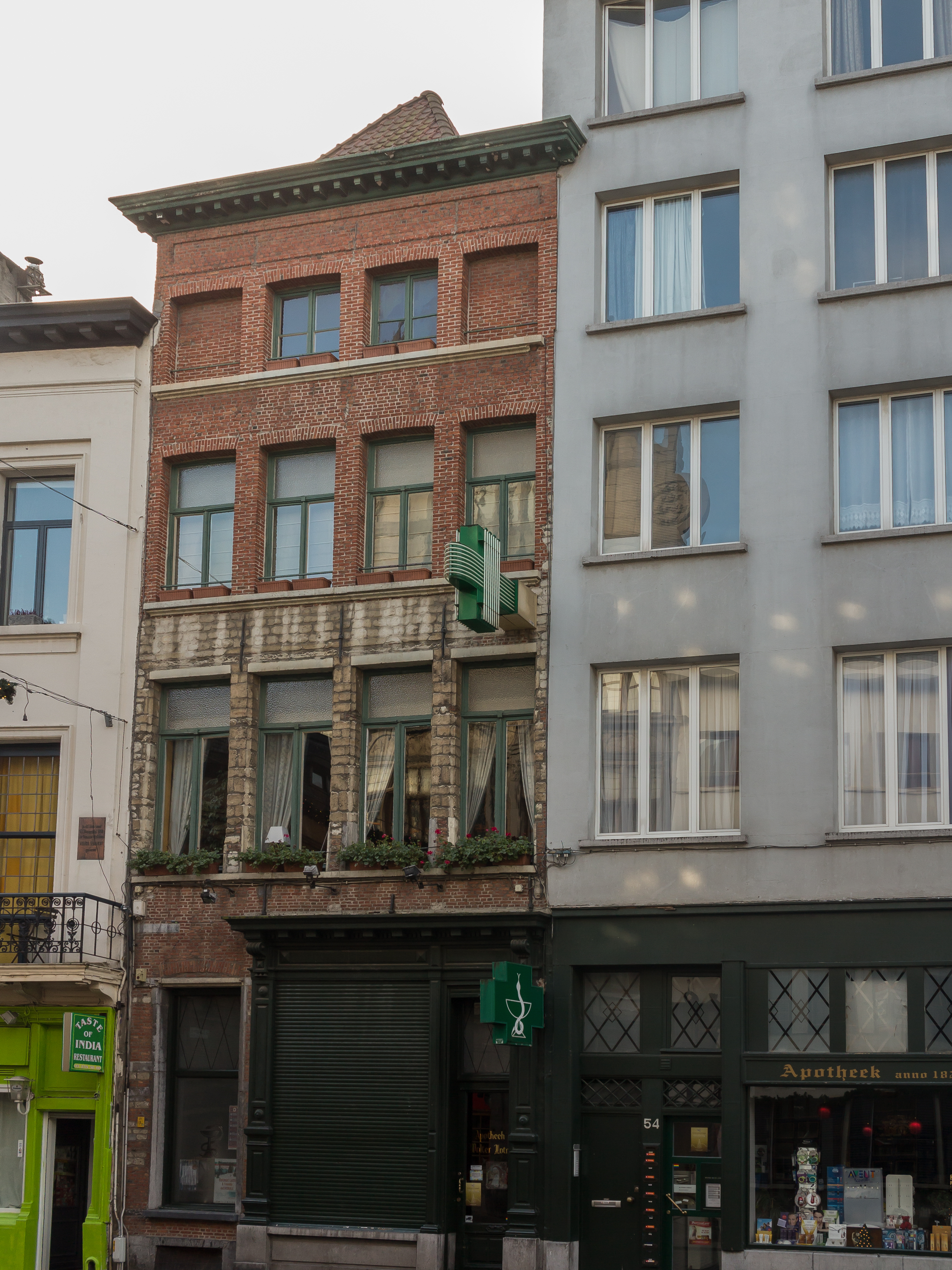 Antwerp, monumental house: Grote Markt 56